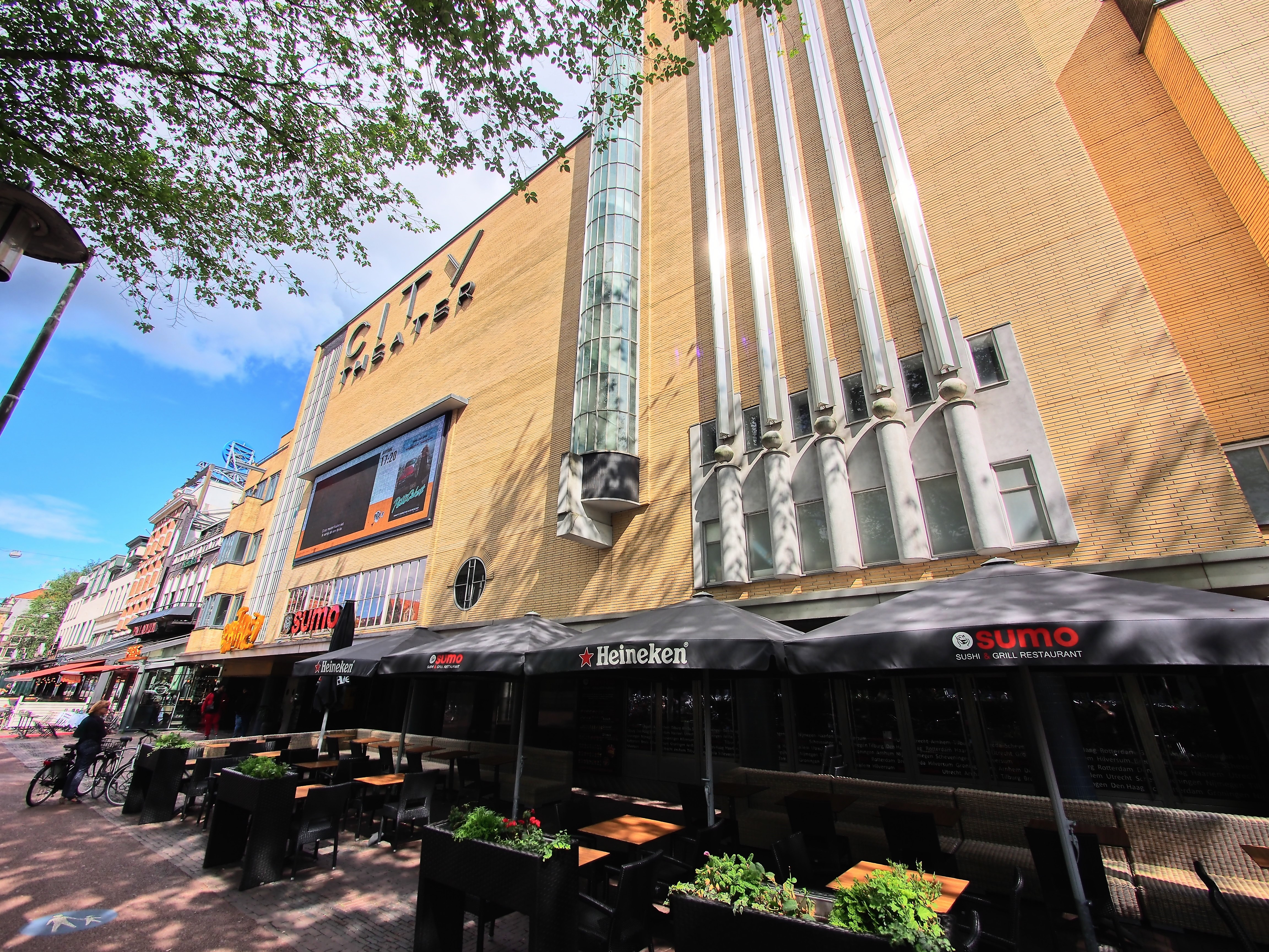 Photo taken in Amsterdam, The Netherlands.